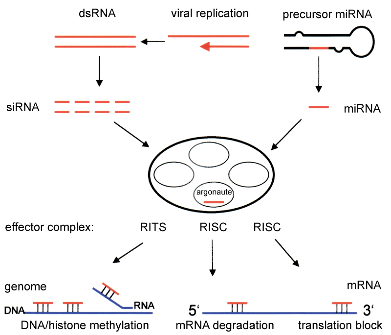 Overview of RNA interference. The dicer enzymes produce siRNA from double-stranded RNA and mature miRNA from precursor miRNA. miRNA or siRNA is bound to an argonaute enzyme and an effector complex is formed, either a RISC (RNA-induced silencing complex) or RITS (RNA-induced transcriptional silencing) complex. RITS affects the rate of transcription by histone and DNA methylation, whereas RISC degrades mRNA to prevent it from being translated.